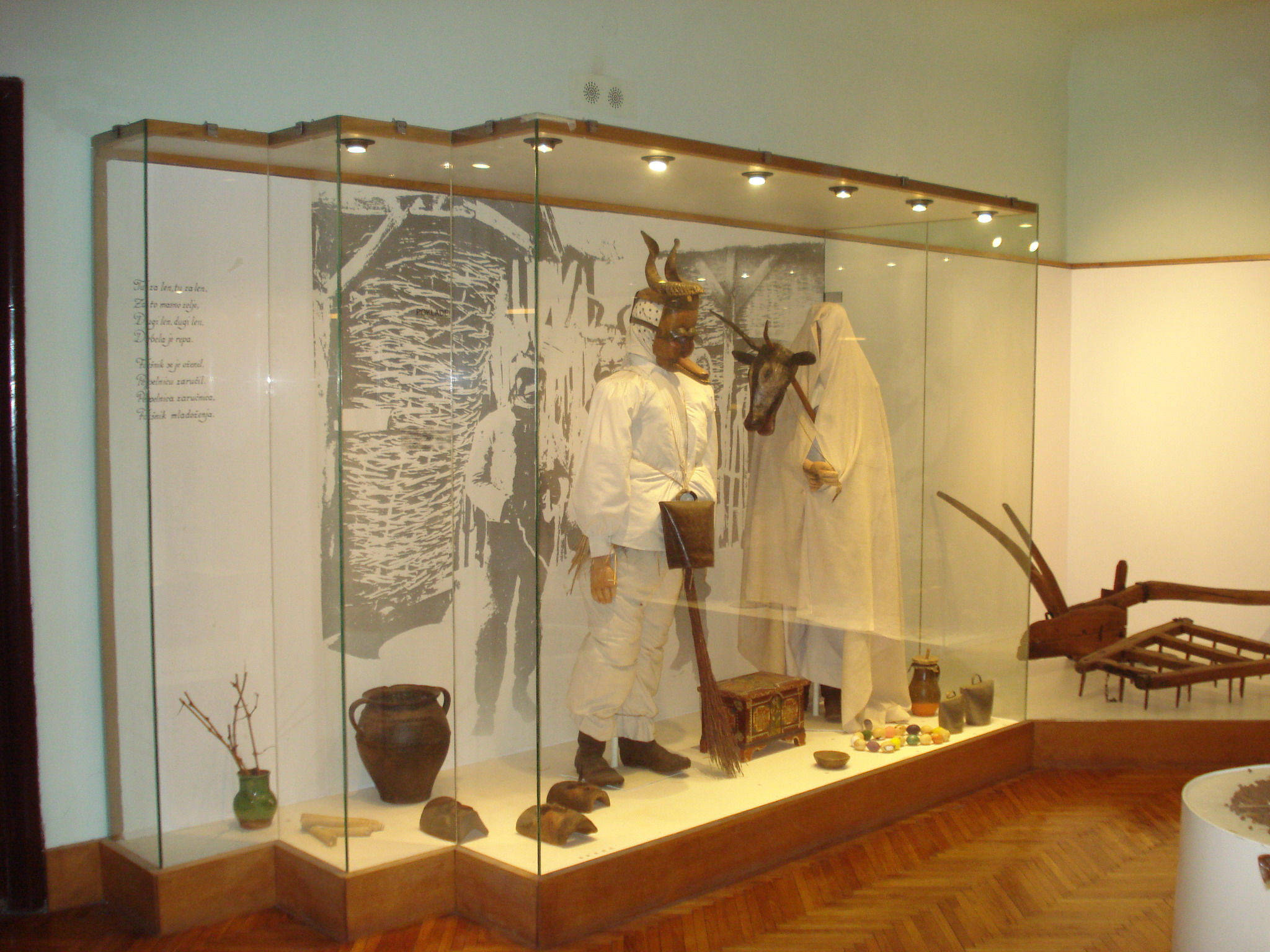 Night of museums 2014. in Čakovec (Croatia) - ethnographic showcase